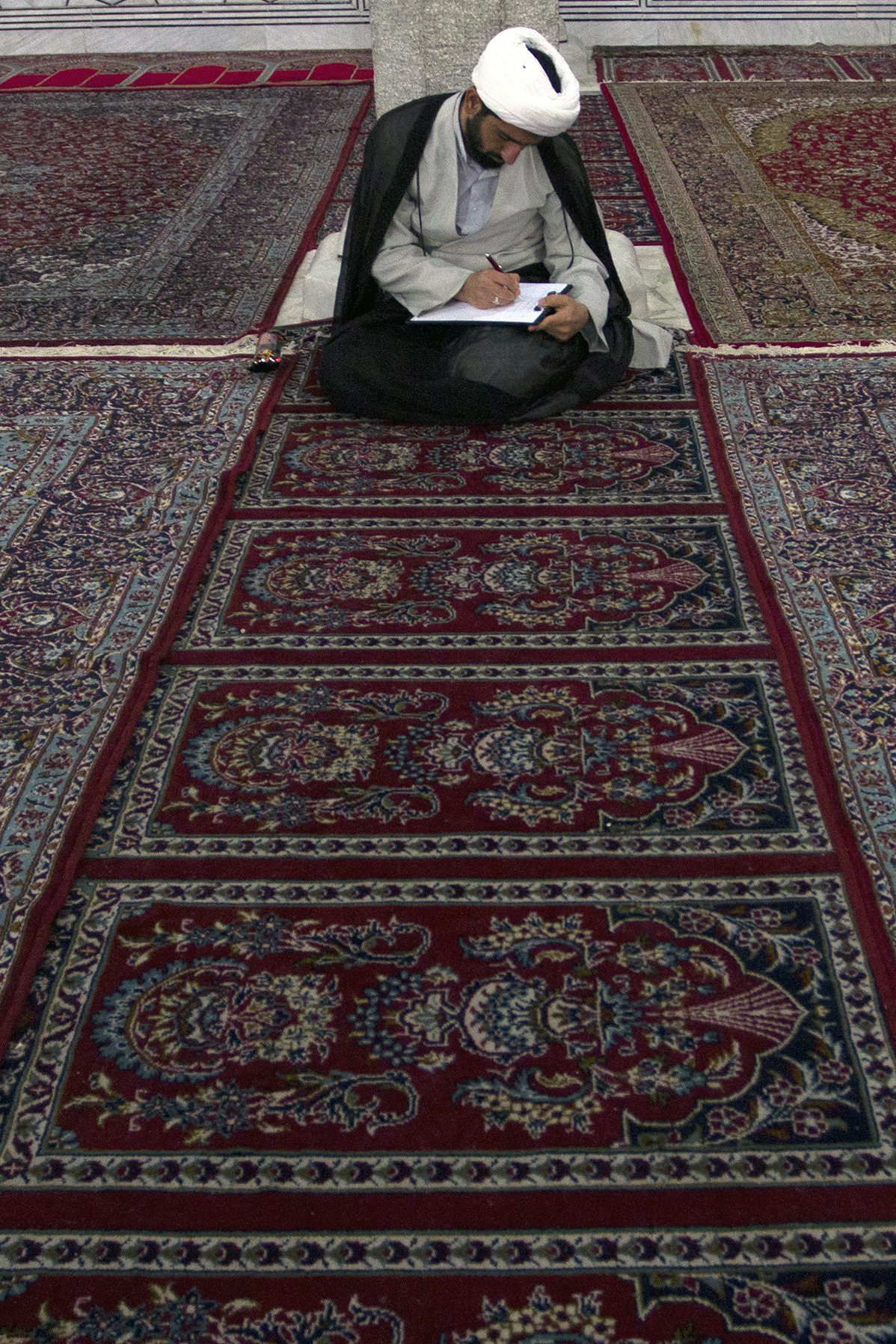 n akhoond is a Persian title for an Islamic cleric, common in Iran, Azerbaijan and some parts of Afghanistan and Pakistan.